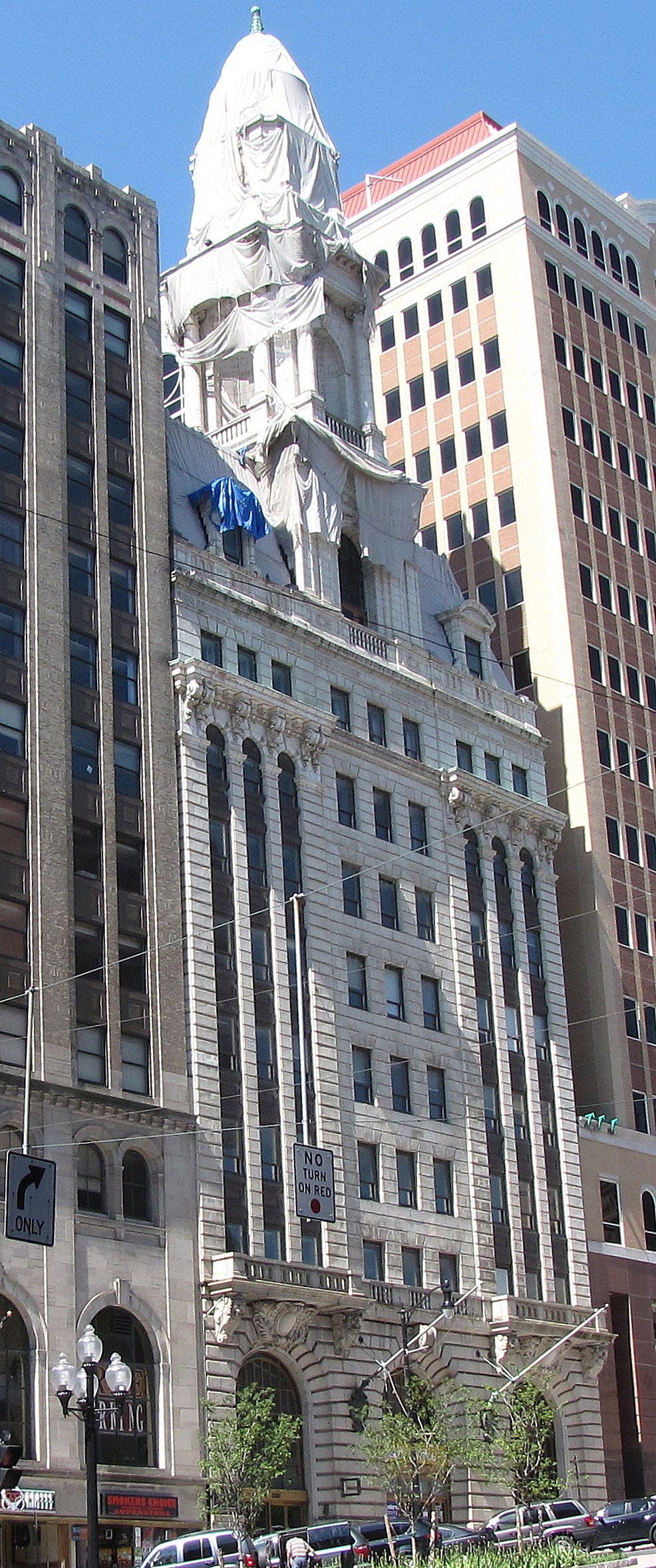 100 State Street